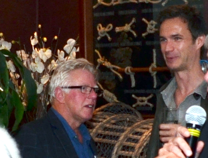 Phil Davis and James D'Arcy at the Dinard Festival of British Cinema 2016